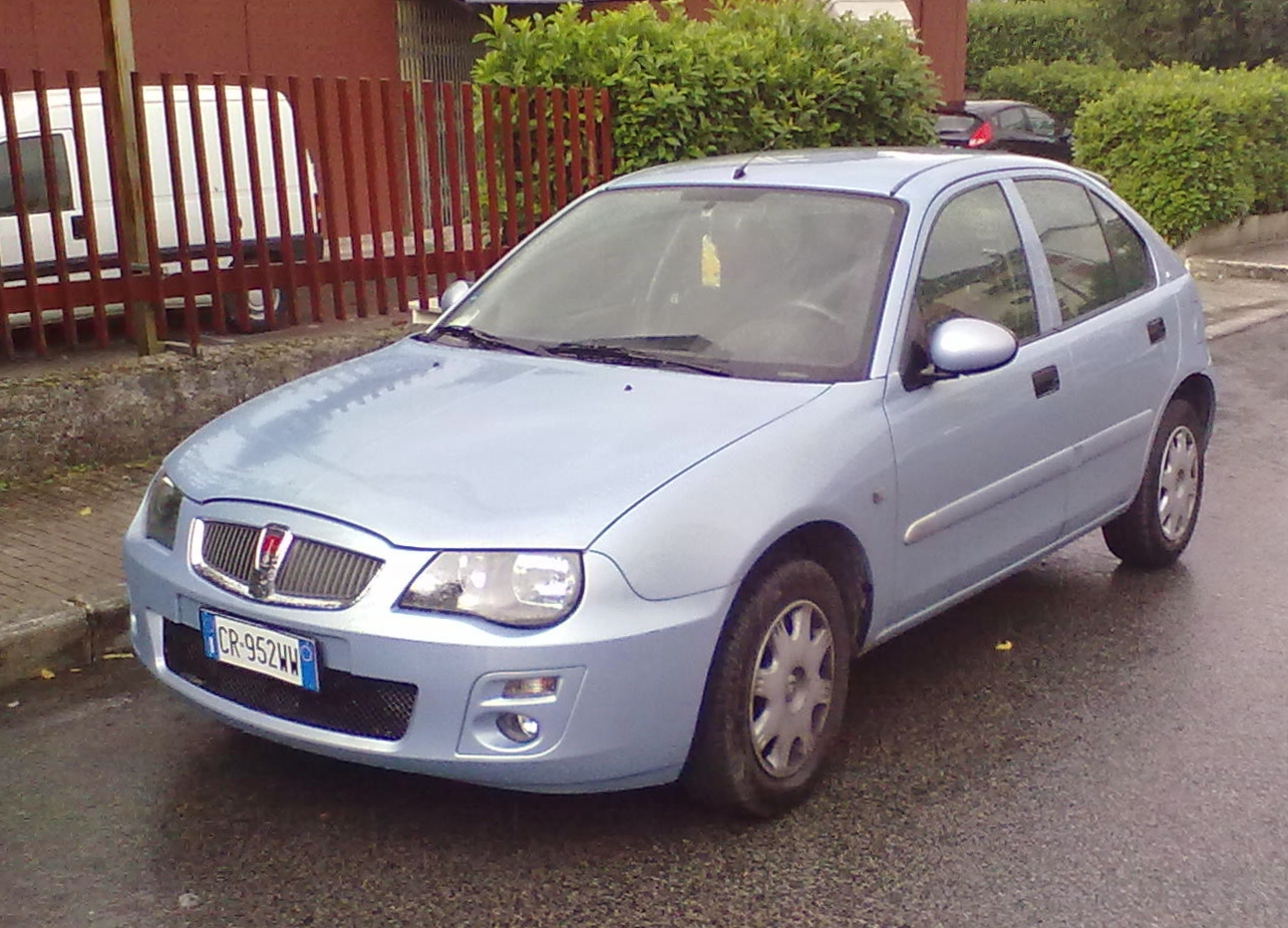 Rover 25 facelift front